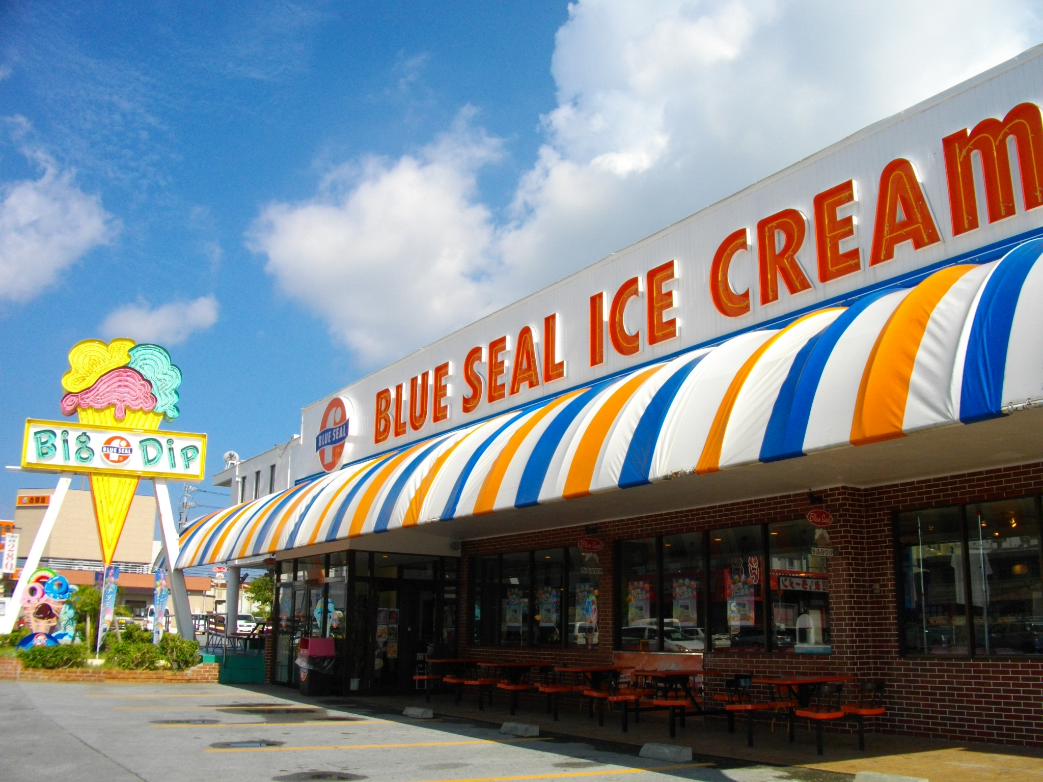 Big Dip Makiminato